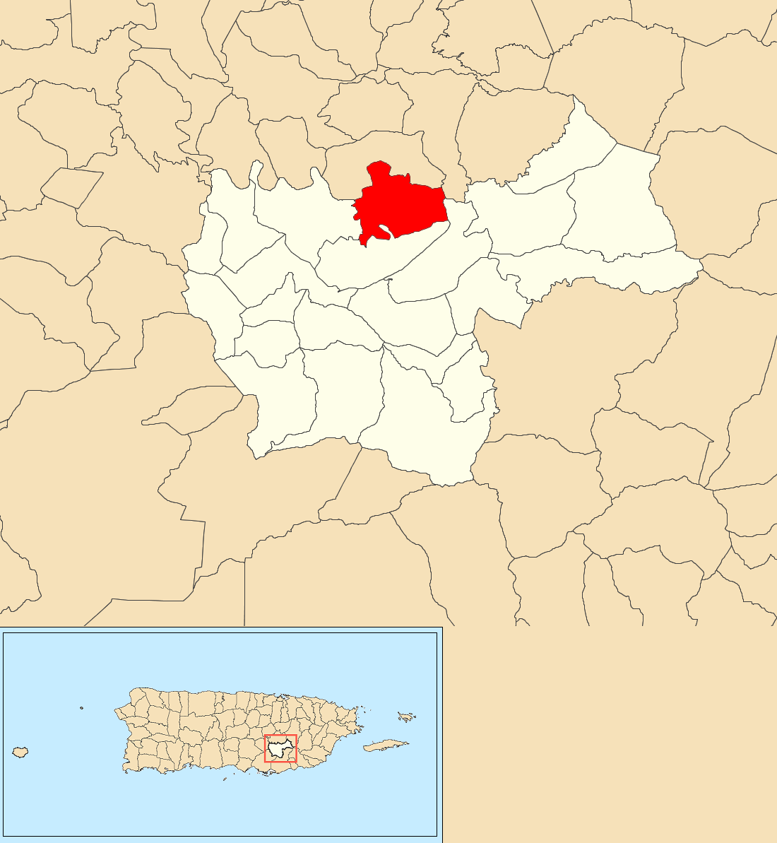 Rincón, Cayey, Puerto Rico locator map